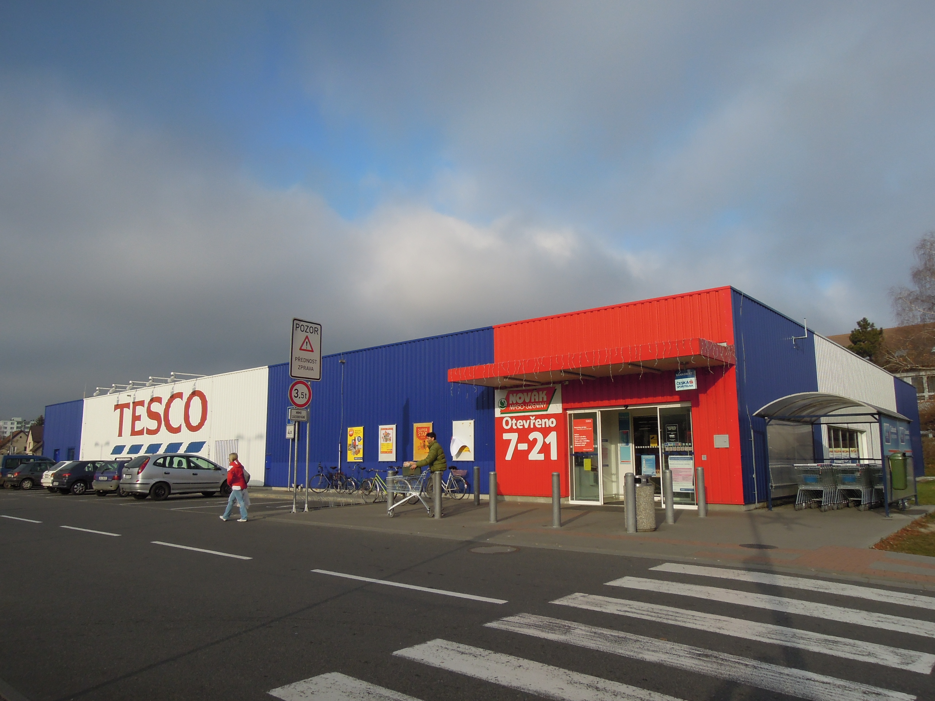 Tesco in Zubří, Vsetín District, Zlín Region, Czech Republic